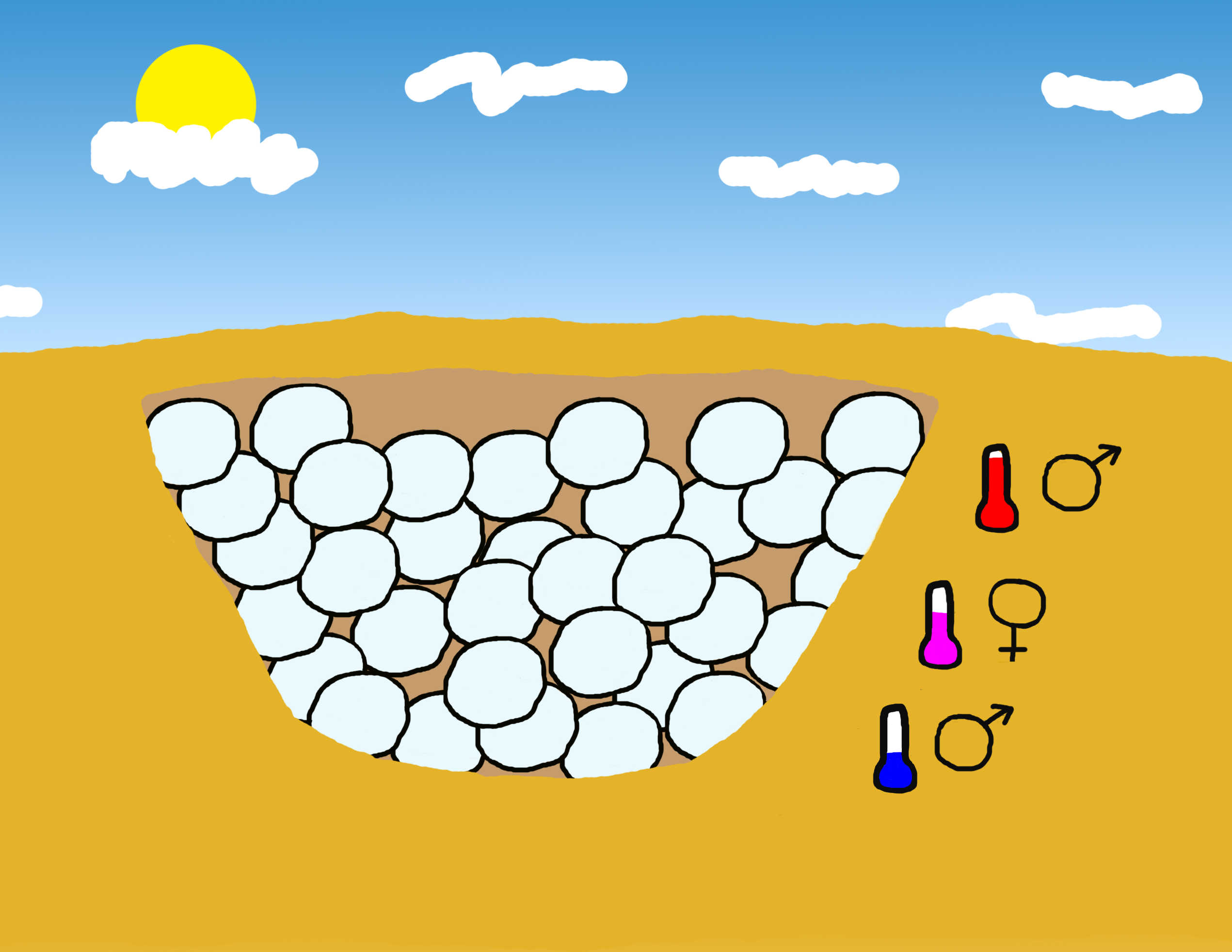 Some reptiles use incubation temperatures to determine sex. In some species this follows the pattern that eggs in extreme high or low temperatures become male and eggs in medium temperatures become female.